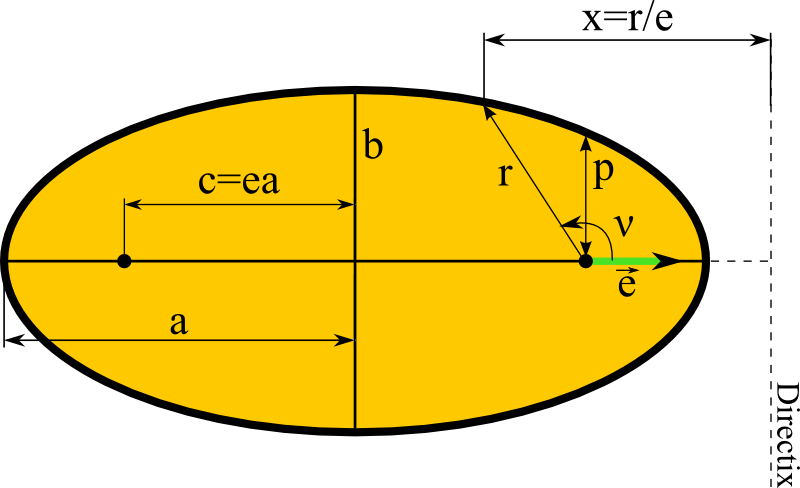 The parameters of elliptic orbital